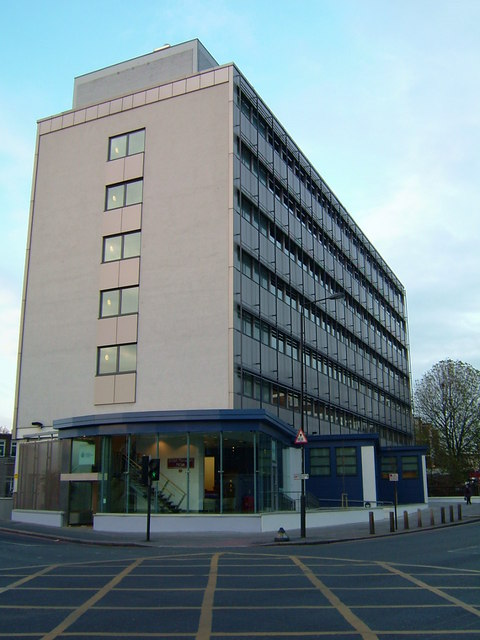 British Transport Police HQ, Camden New British Transport Police HQ in Camden